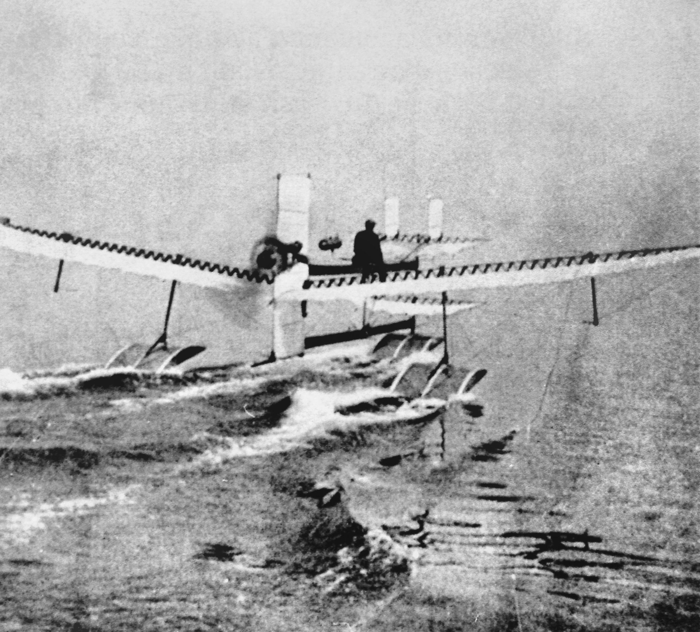 Henri Fabre on Hydroplane 28 March 1910